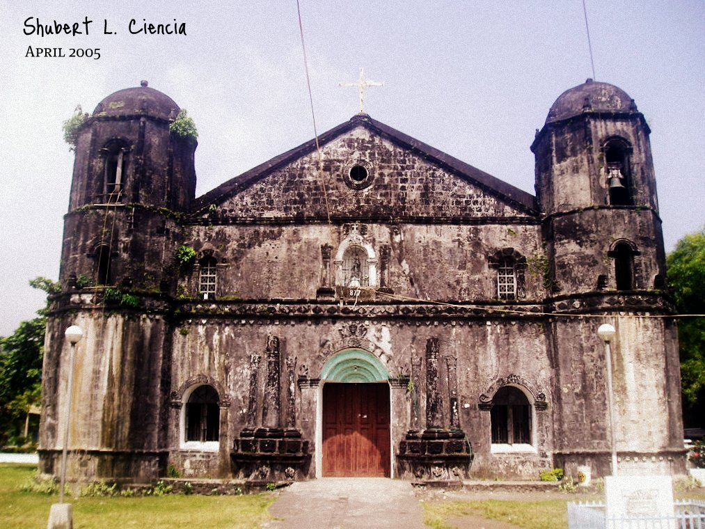 Church of Our Lady of Mt. Carmel in Malilipot, Albay, the Philippines. Orig. Flickr description: Today's townof Malilipot evolved from the Libon matrix (today's Sto. Domingo) that was established by Juan de Salcedo in 1573. There are no data on when its colonial era church was built.